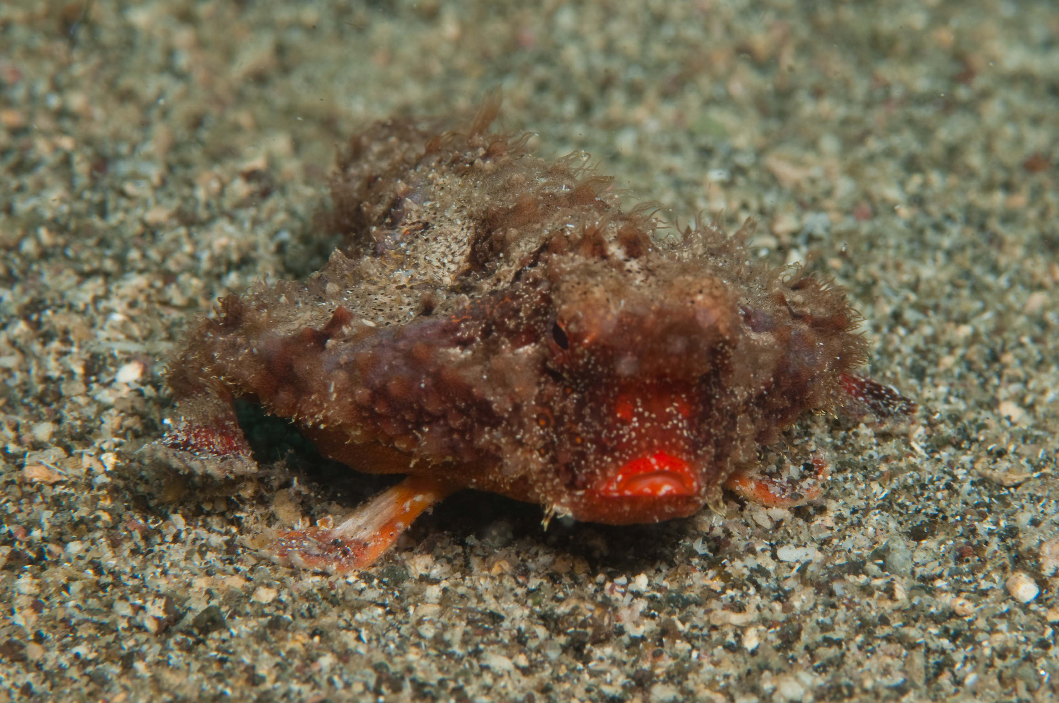 Roughback batfish (Ogcocephalus parvus), photo from Calliaqua, Saint Vincent and the Grenadines, Caribbean